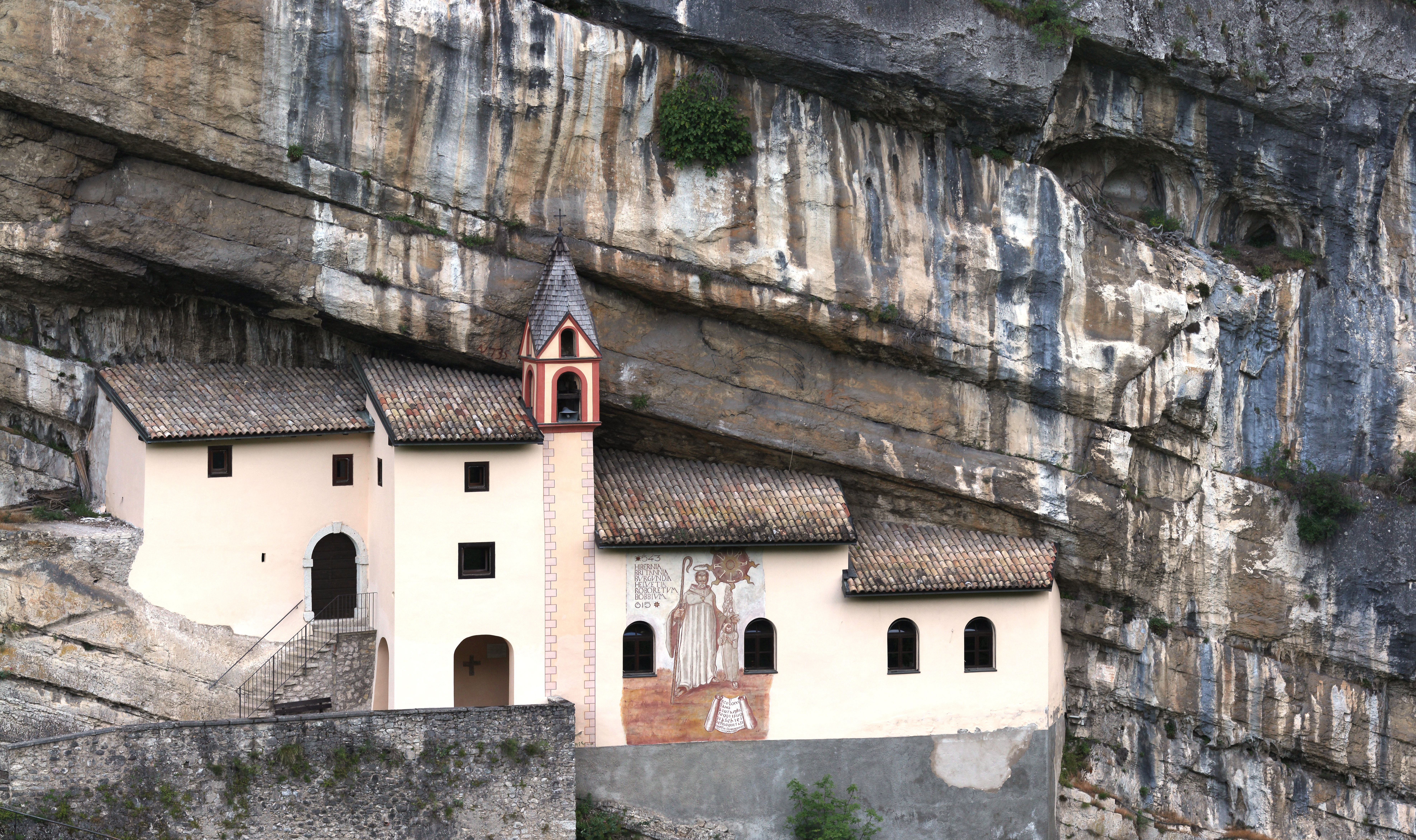 Trambileno (Italy): view of the hermitage of San Colombano hermitage from SS46.